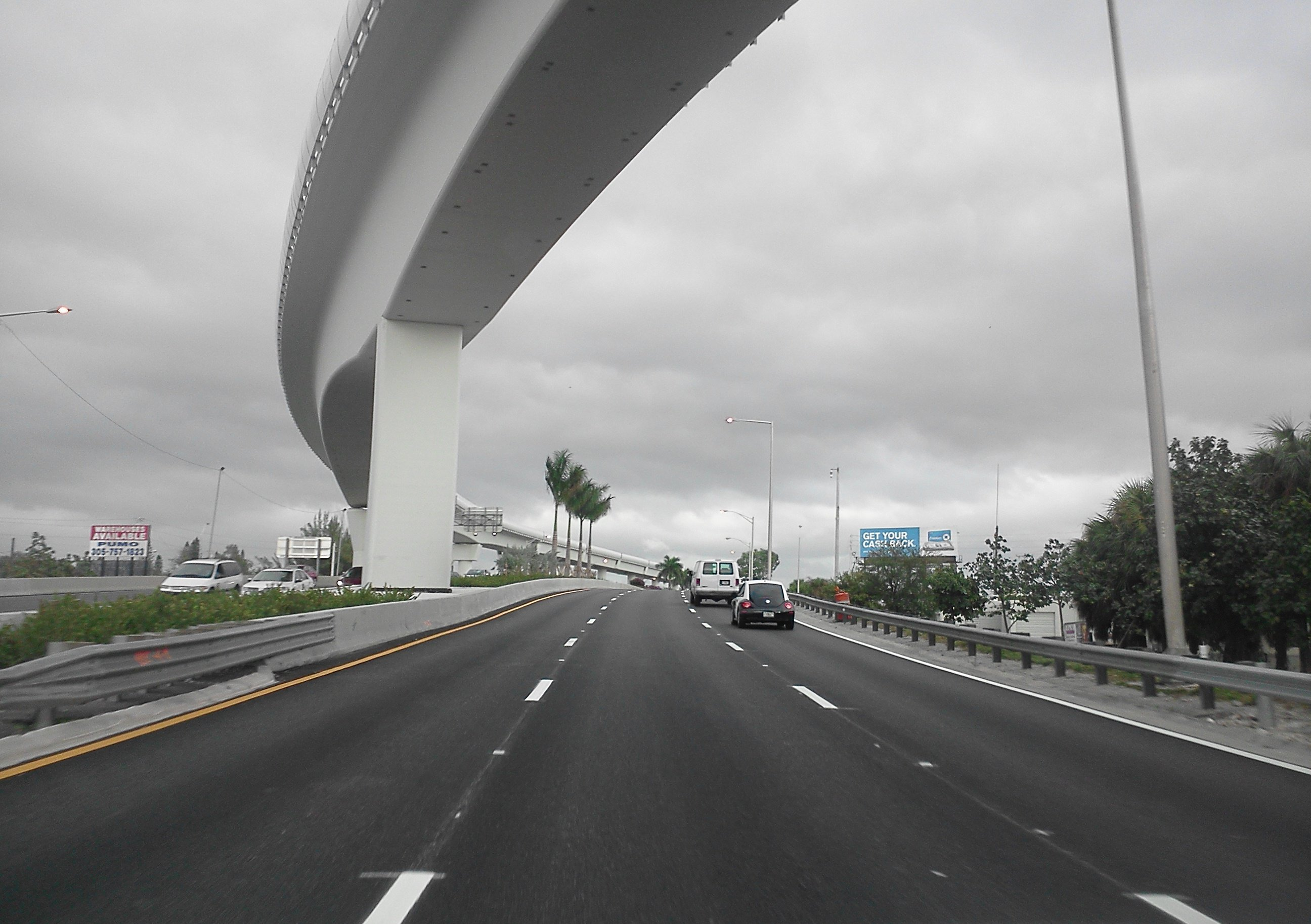 Construction of the Metrorail (Miami) extension.